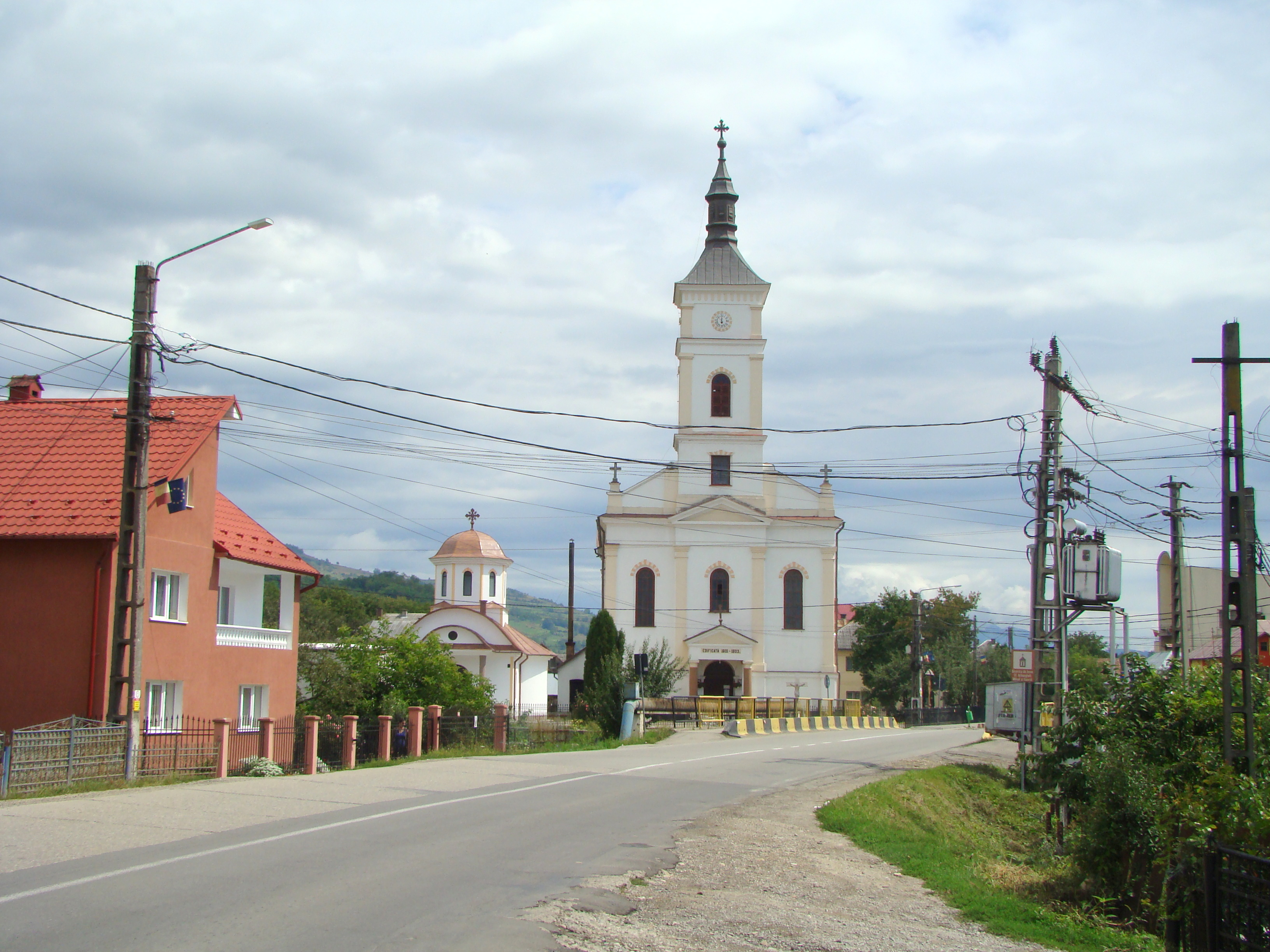 Rebrișoara, Bistrița-Năsăud county, Romania